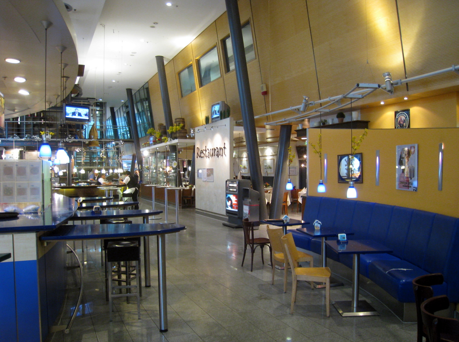 Munich Central Station